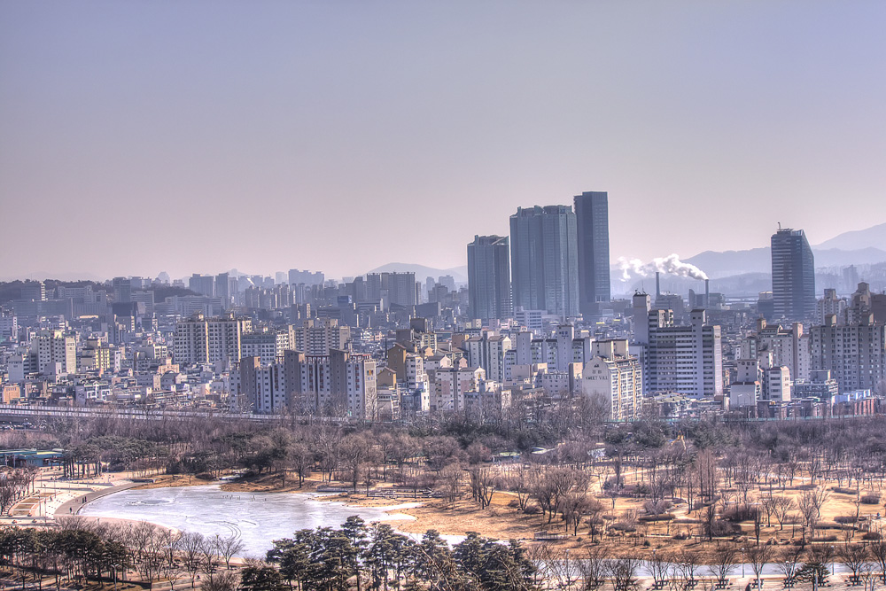 The city of Seoul from the sky park next to the world cup stadium HDR cityscape If you wish to use this image you can do so freely as long as you give credit to me for the picture by linking to my travel blog